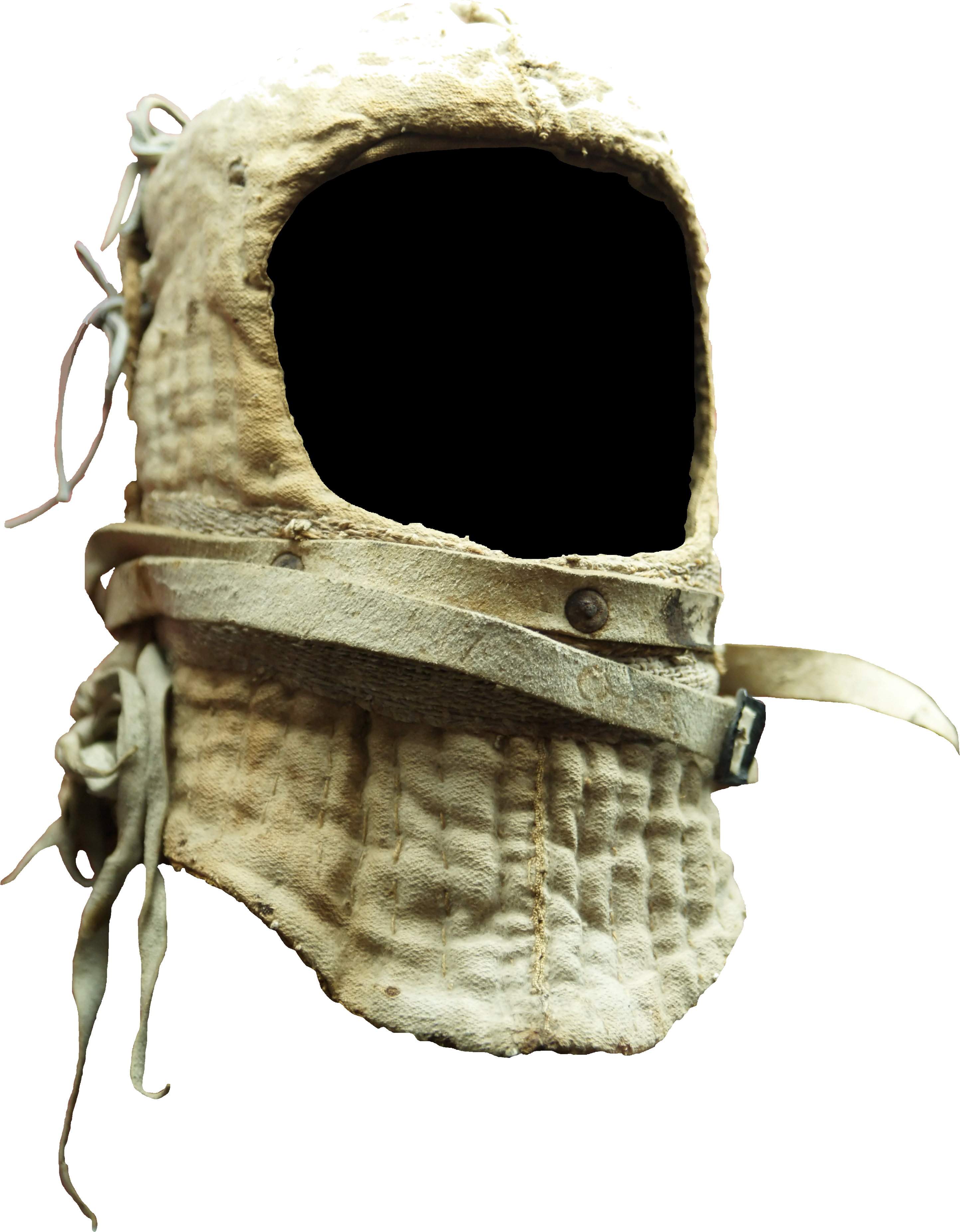 Fiber-filled linen padding of a tournament helmet.